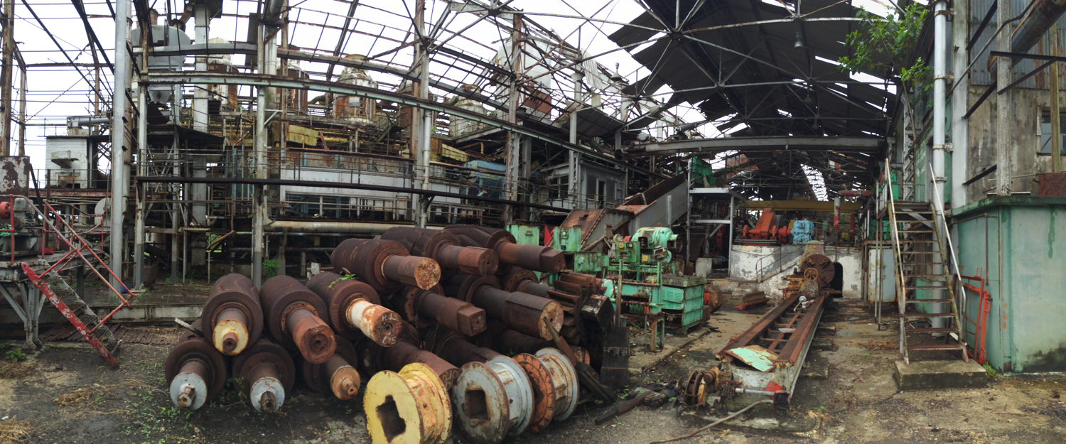 Panoramic view inside part of the factory